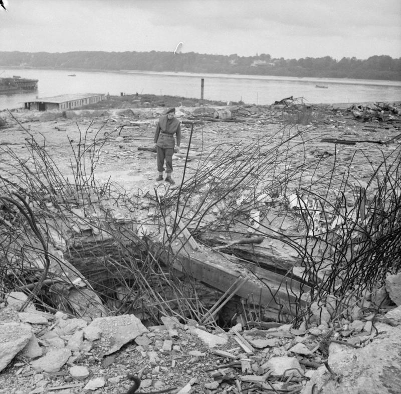 Germany Under Allied Occupation A British soldier from 224 Field Company, Royal Engineers, examines a hole made by a 12,000 lb bomb in the 11 foot thick concrete roof of the German U-Boat pens at Hamburg.